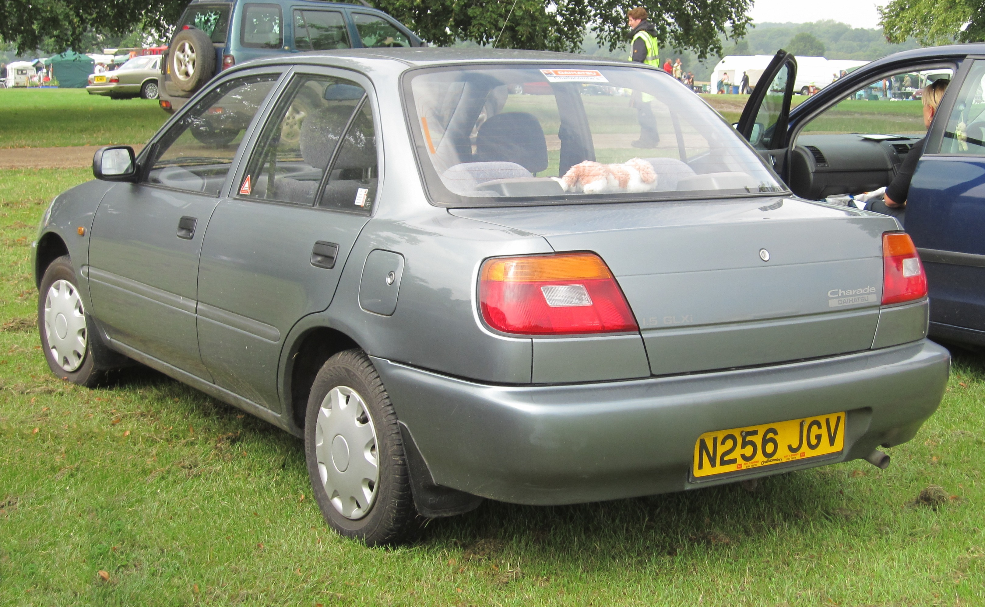 Daihatsu Charade 1.5 GLXi 4-door notchback sedan (1995)